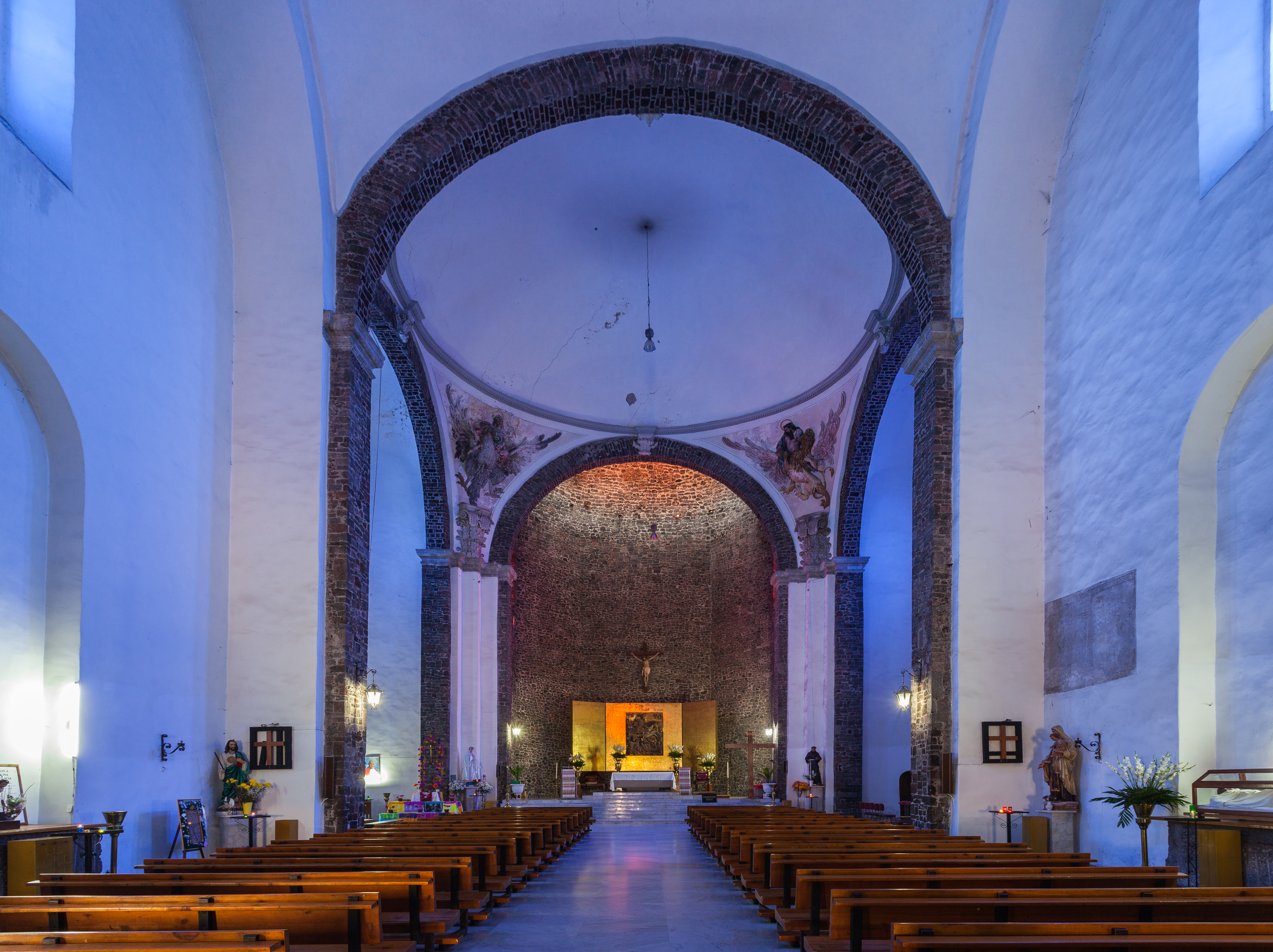 Church of Santiago Tlatelolco, host of the Colegio de Santa Cruz de Tlatelolco (first European school of higher learning in the Americas), Mexico City, Mexico.